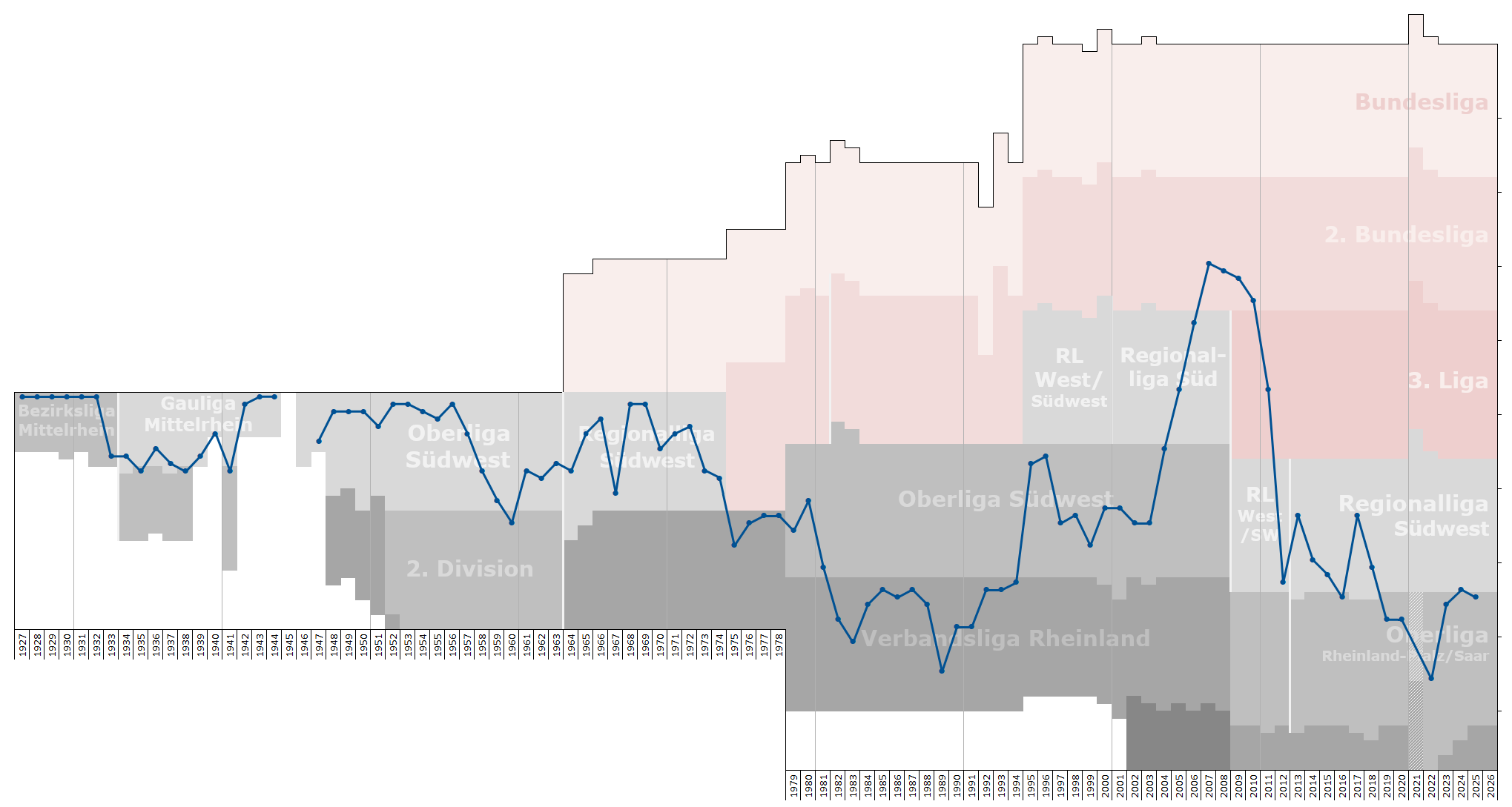 Chart of end-season table positions of TuS Koblenz in the football league system of Germany. Data source: RSSSF, wikipedia, f-archiv.de, fussball.de